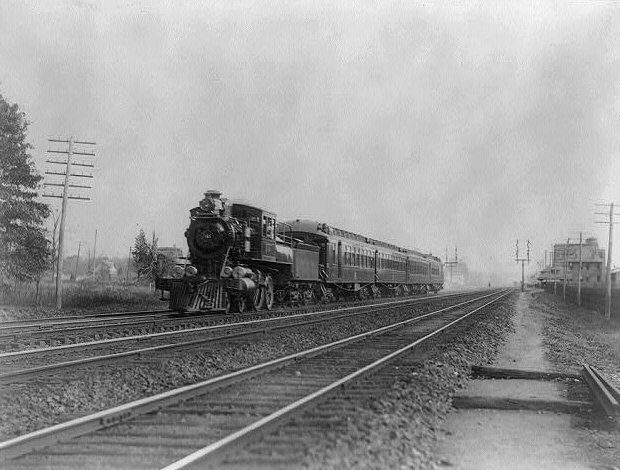 The Baltimore and Ohio Railroad's Royal Limited in 1898, one of the B&O's famed Royal Blue trains. Uploaded by User:JGHowes